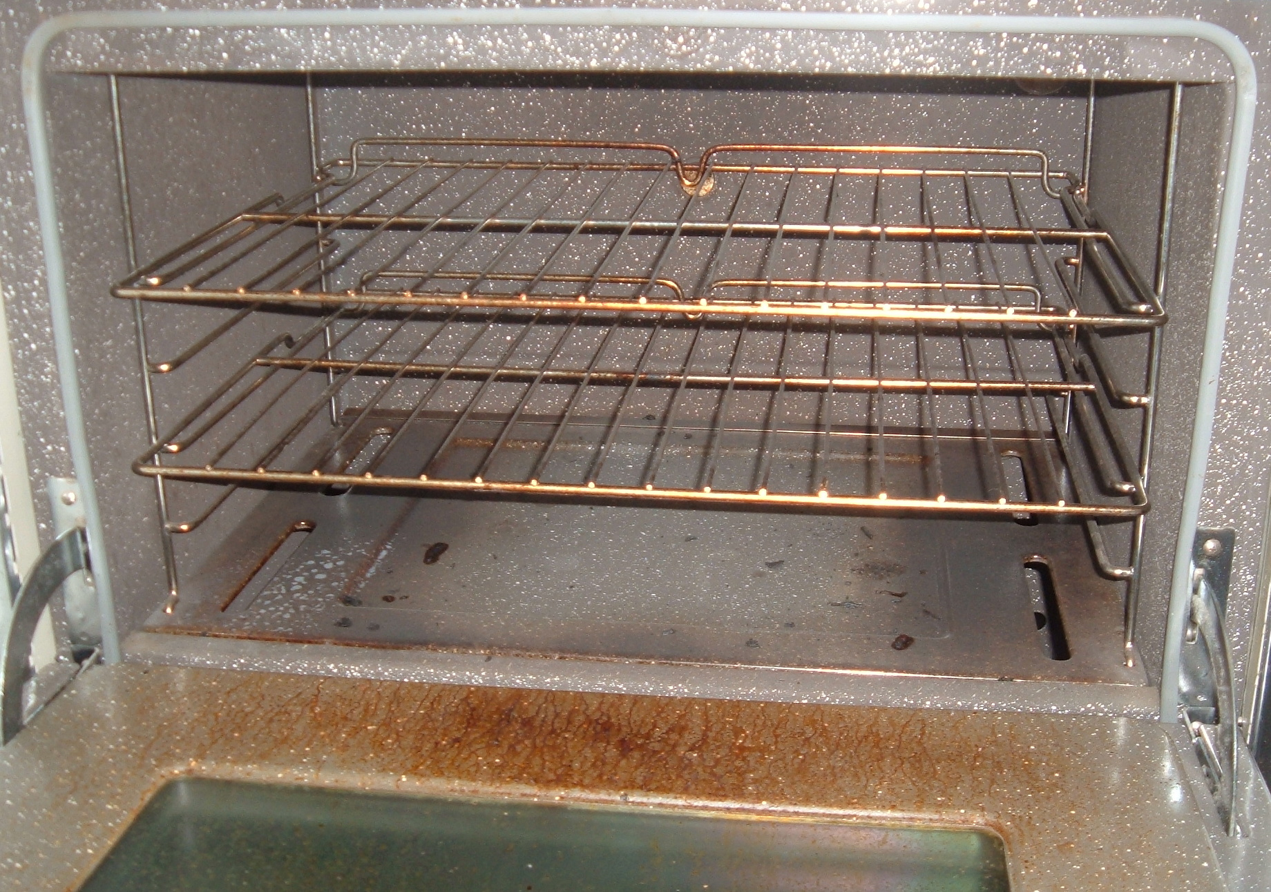 Oven in a kitchen range. One of a series of common objects I photographed in the summer of 2005 to illustrate Basic English picture wordlist. --agr 21:08, 3 August 2005 (UTC)